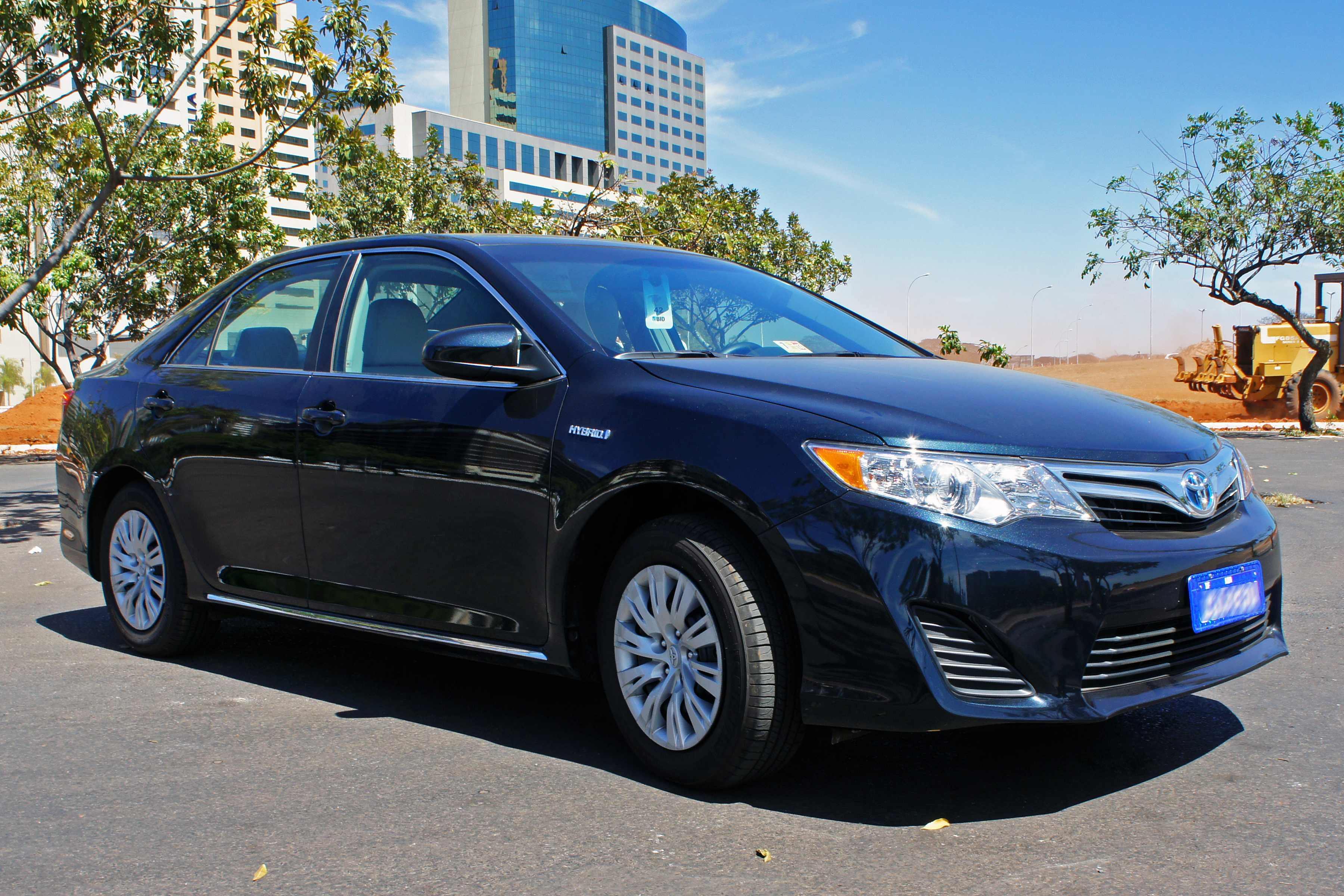 2012 Toyota Camry Hybrid with diplomatic plates in Brasília, Brazil